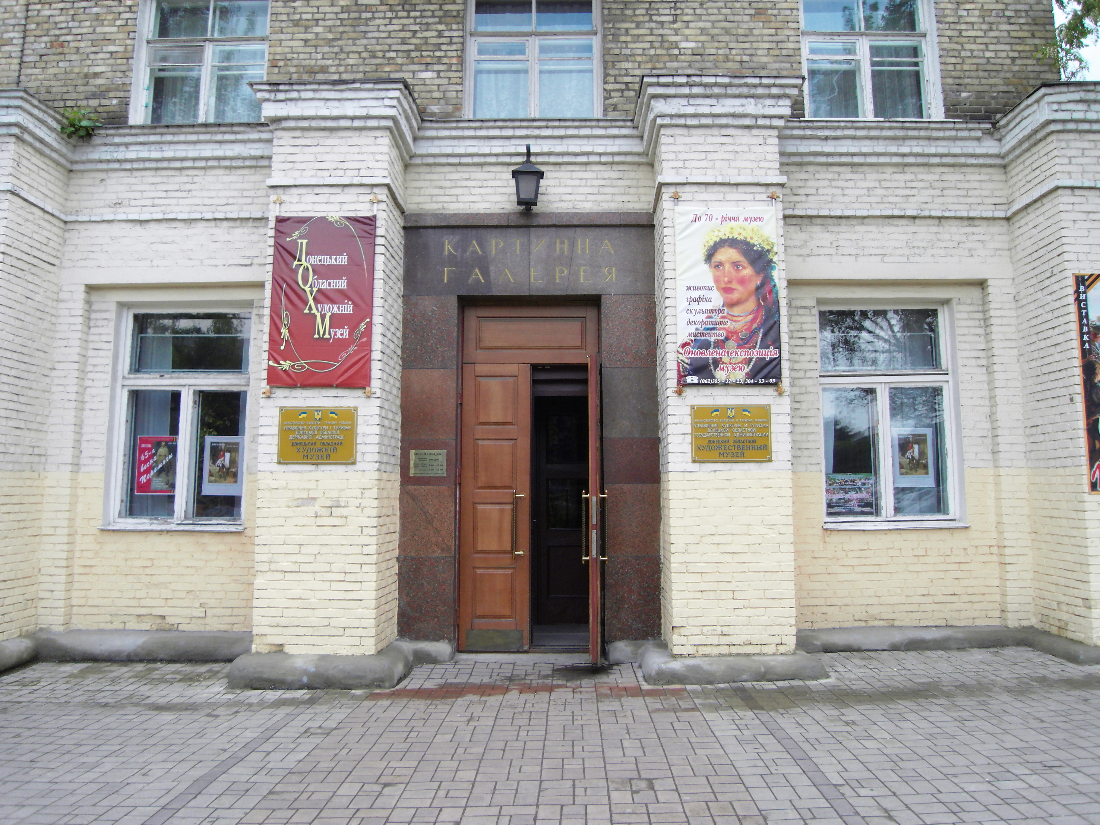 Donetsk Art Museum